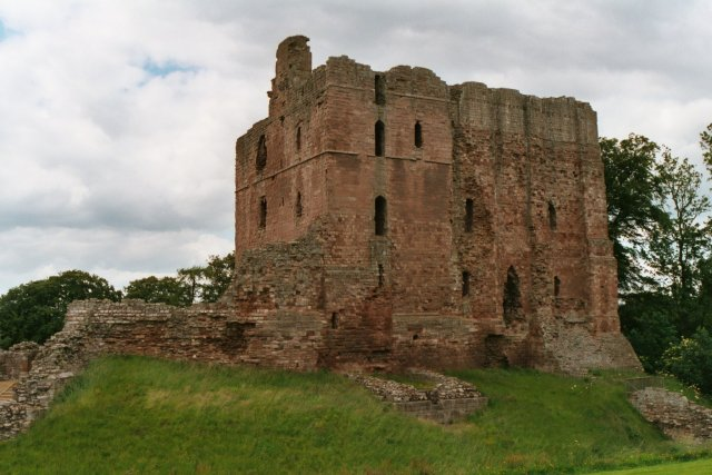 Norham Castle is a partly ruined castle in Northumberland, England, overlooking the River Tweed, on the border between England and Scotland.